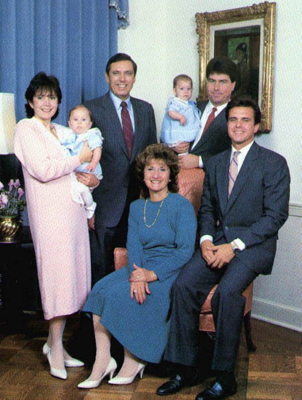 Portrait of Florida Governor Bob Martinez and his family on inauguration day.